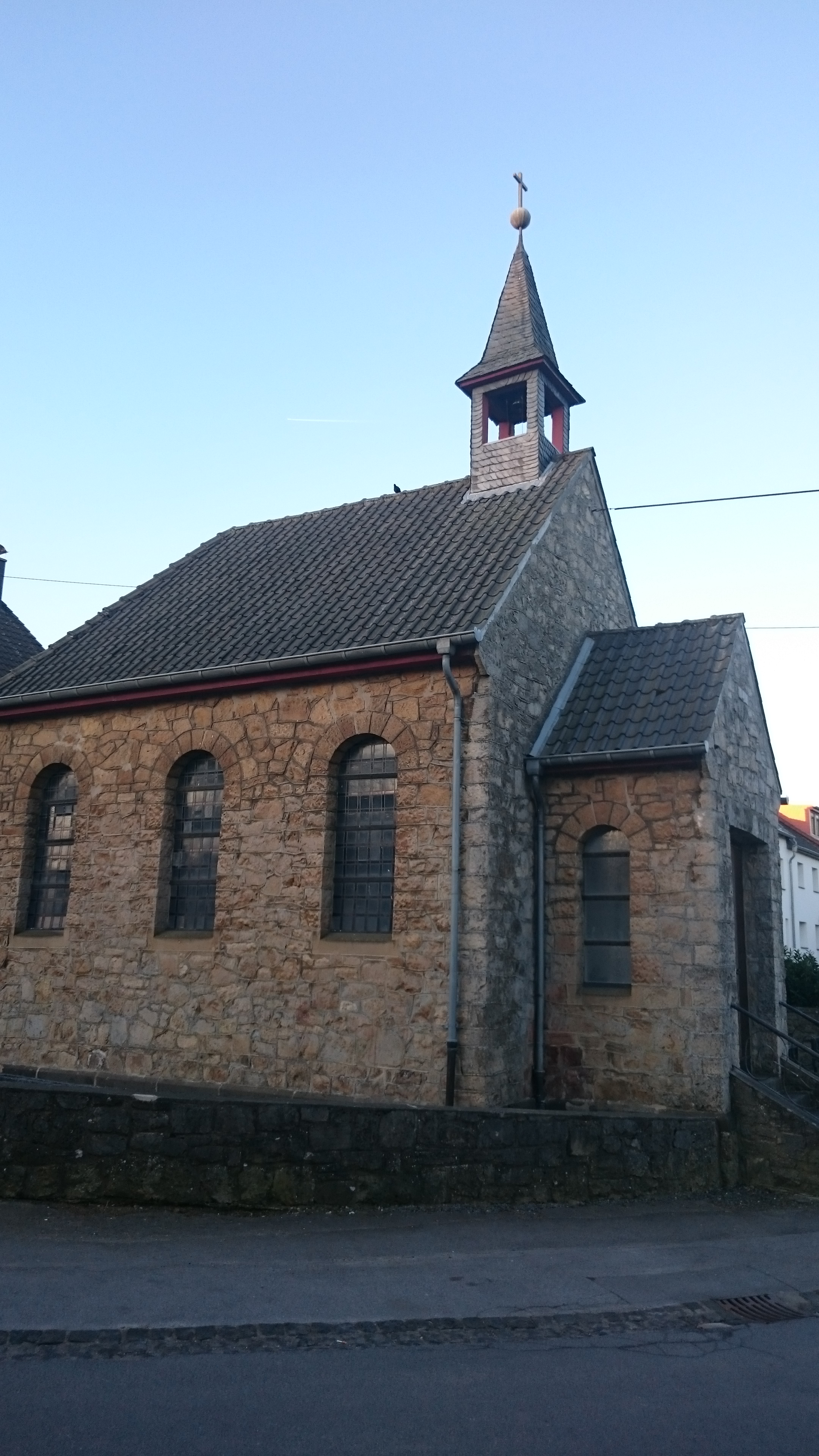 Cultural heritage monuments in Stolberg Rhineland